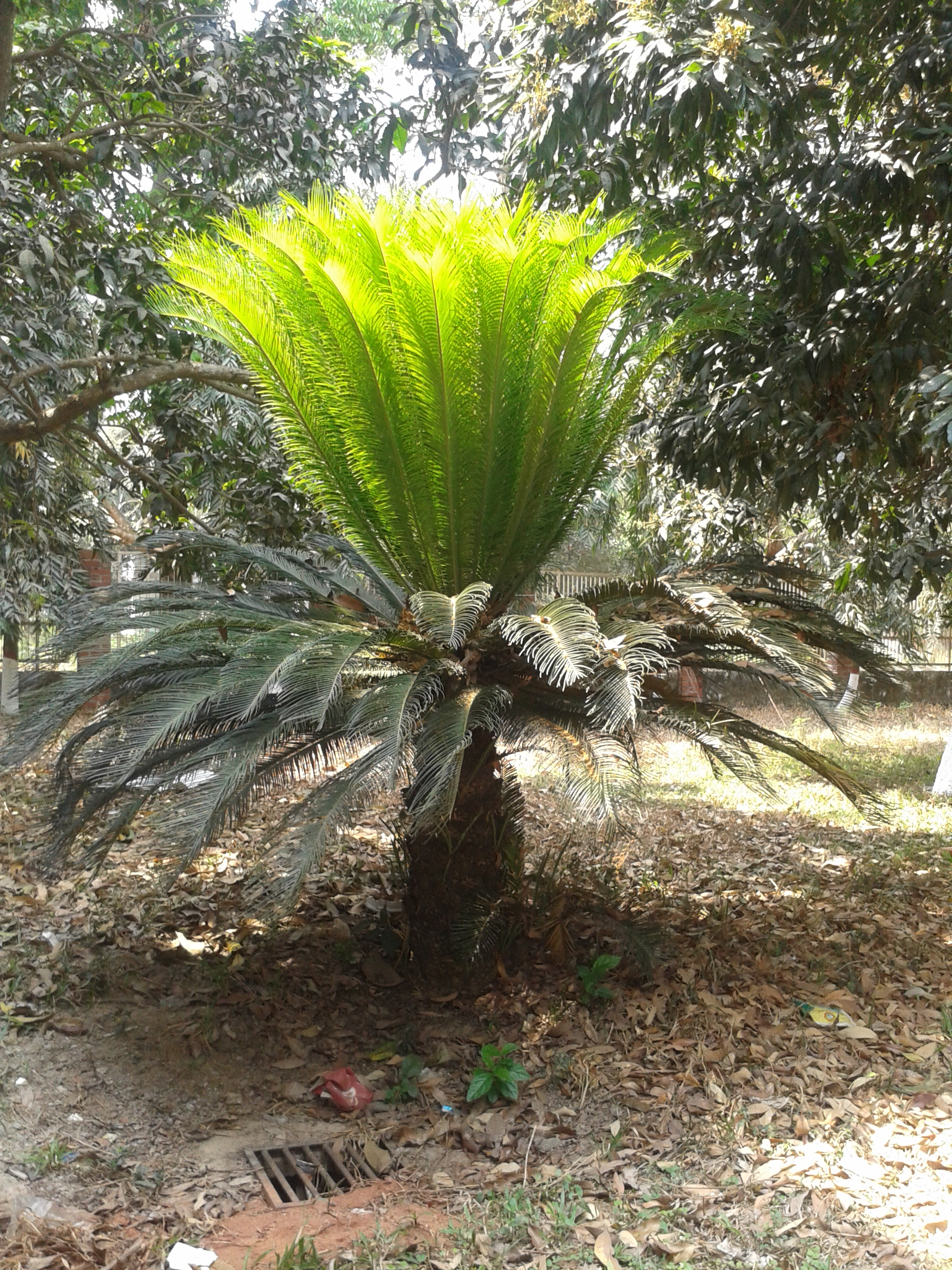 Cycus at Training Institute for Chemical Industries, Urea Fertilizer Factory Limited, Narshingdi.